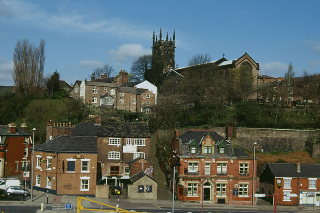 Macclesfield. The town as seen from the station footbridge.